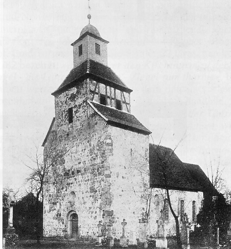 Village church Wildenbruch around 1900. Listed Fieldstone church, built in the 13th century. The timber framed addition on the center of the west tower was built in 1737 and after modifications in the meantime (in the picture) 1992 reconstructed according to the plans from 1737. Contrary to many different depictions it is no Fortified church (german: Wehrkirche). Wildenbruch is a part of Michendorf in the district Potsdam-Mittelmark, state Brandenburg, Germany.